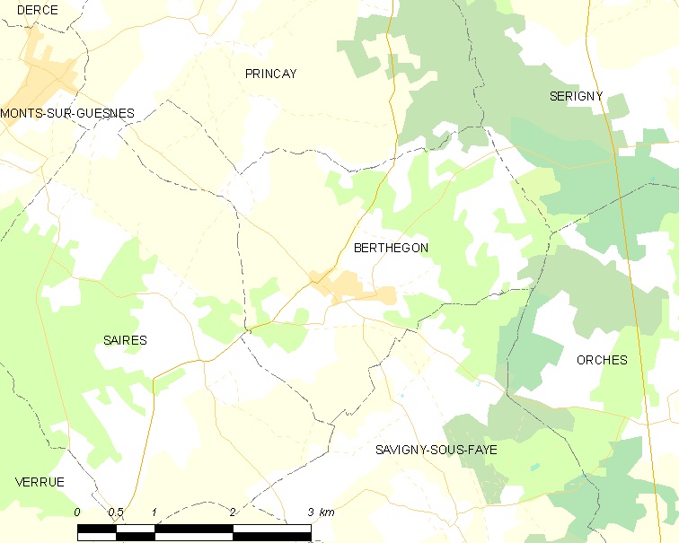 Map of French municipality Berthegon